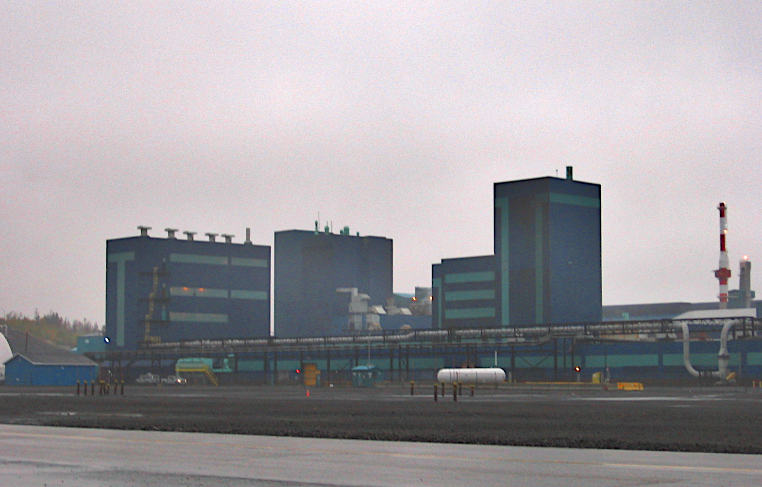 Alouette aluminum plant